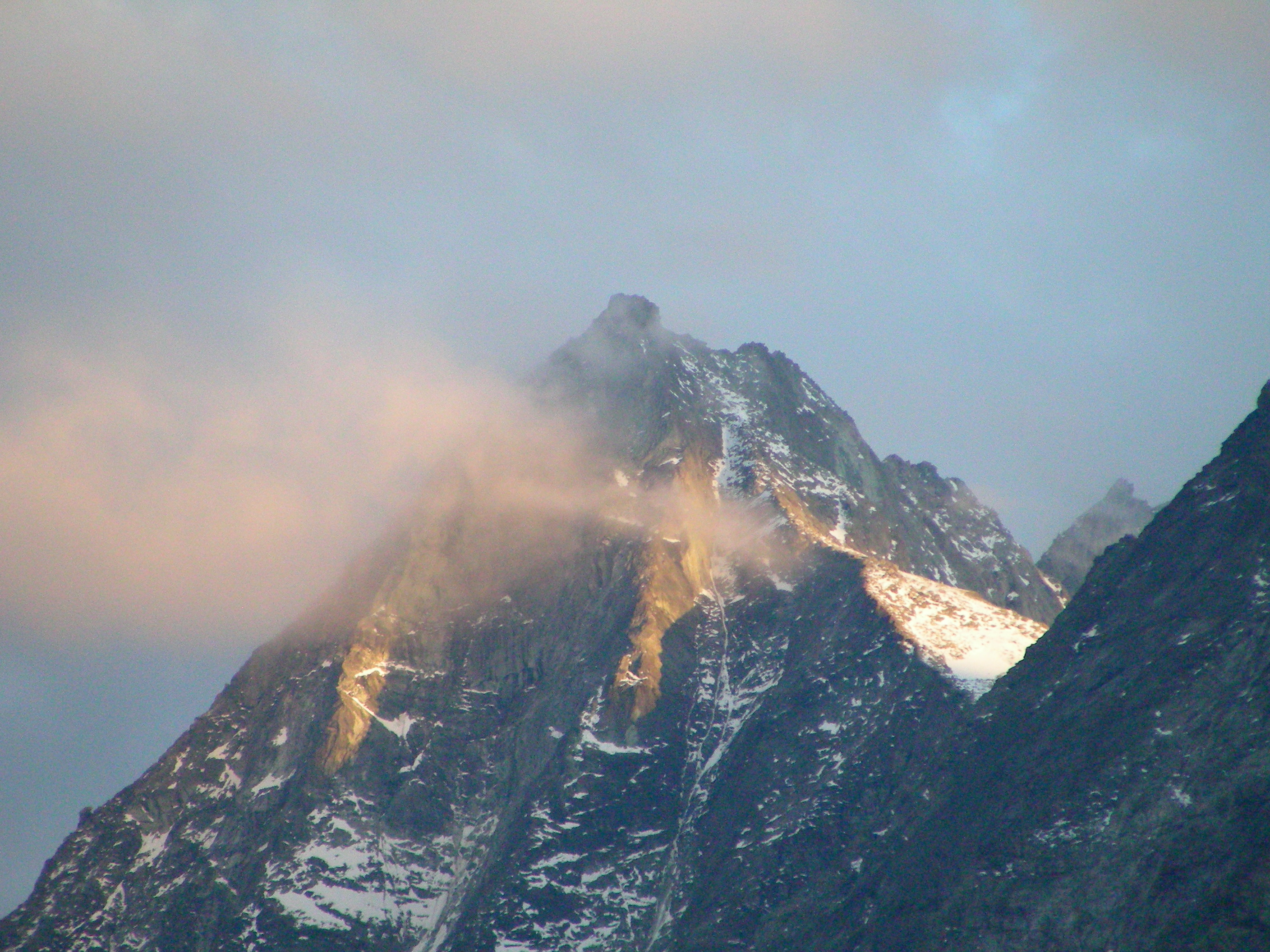 Photograph from the Dent de Perroc (Valais CH) taken from Evolène at nightfall